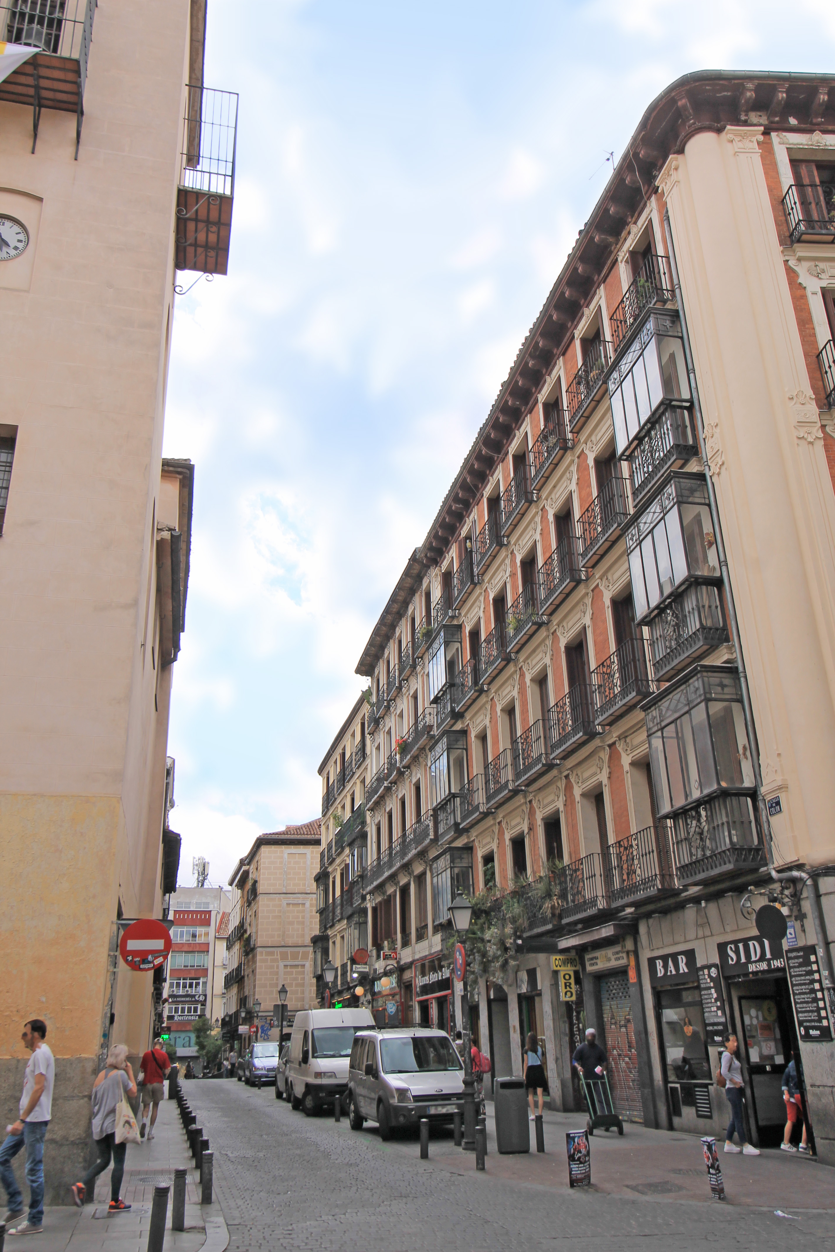 View from Calle de Colón (street) in Madrid (Spain).